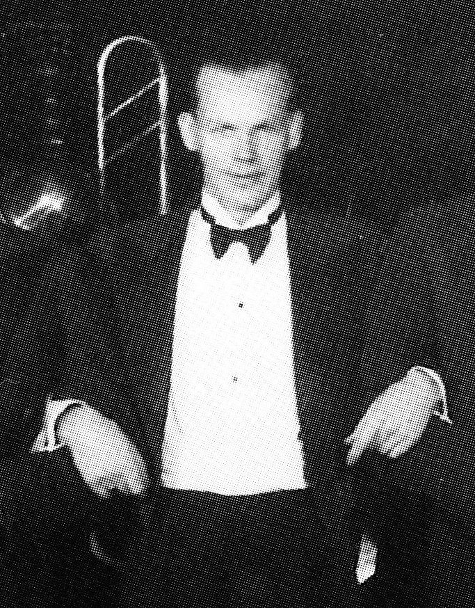 Kaarlo Valkama